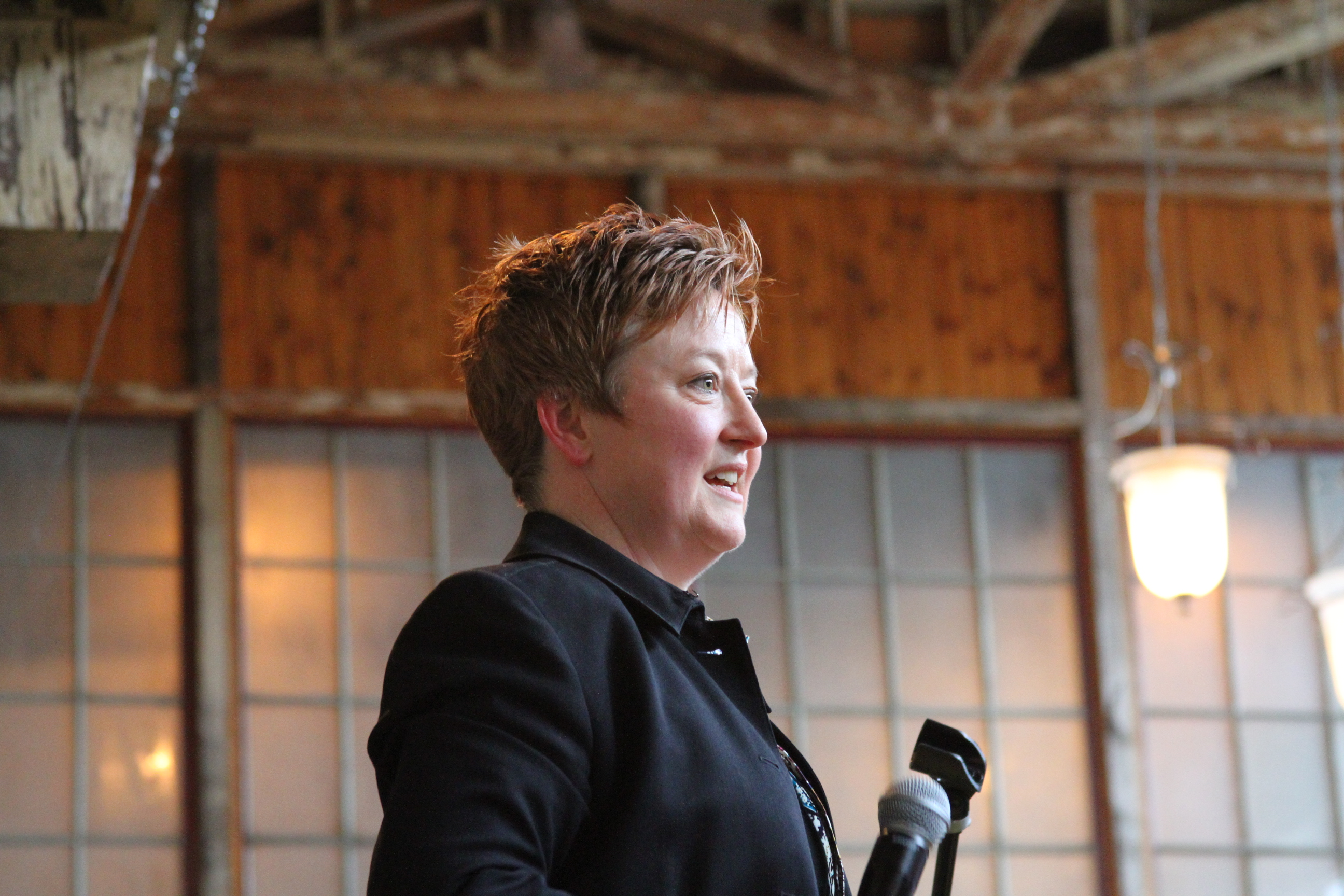 Amy Wheeler speaks at Hedgebrook's EQUIVOX, March 2015.